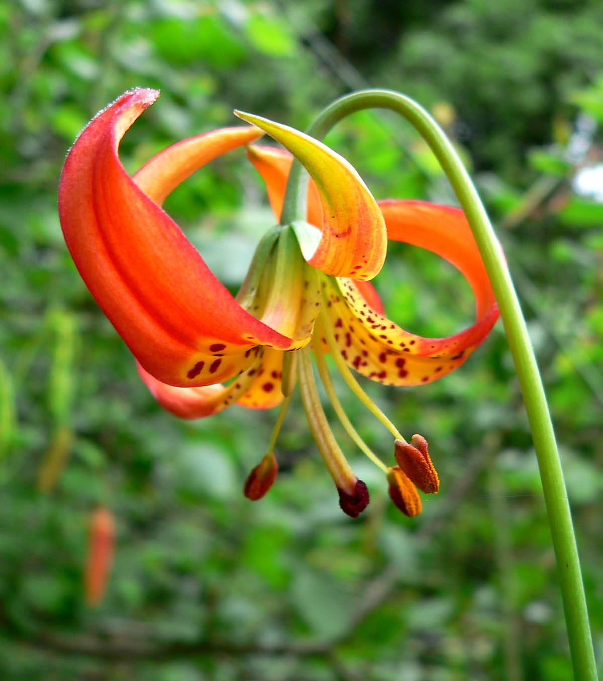 Photo of Lilium pardalinum ssp. pitkinense at the University of California Botanical Garden